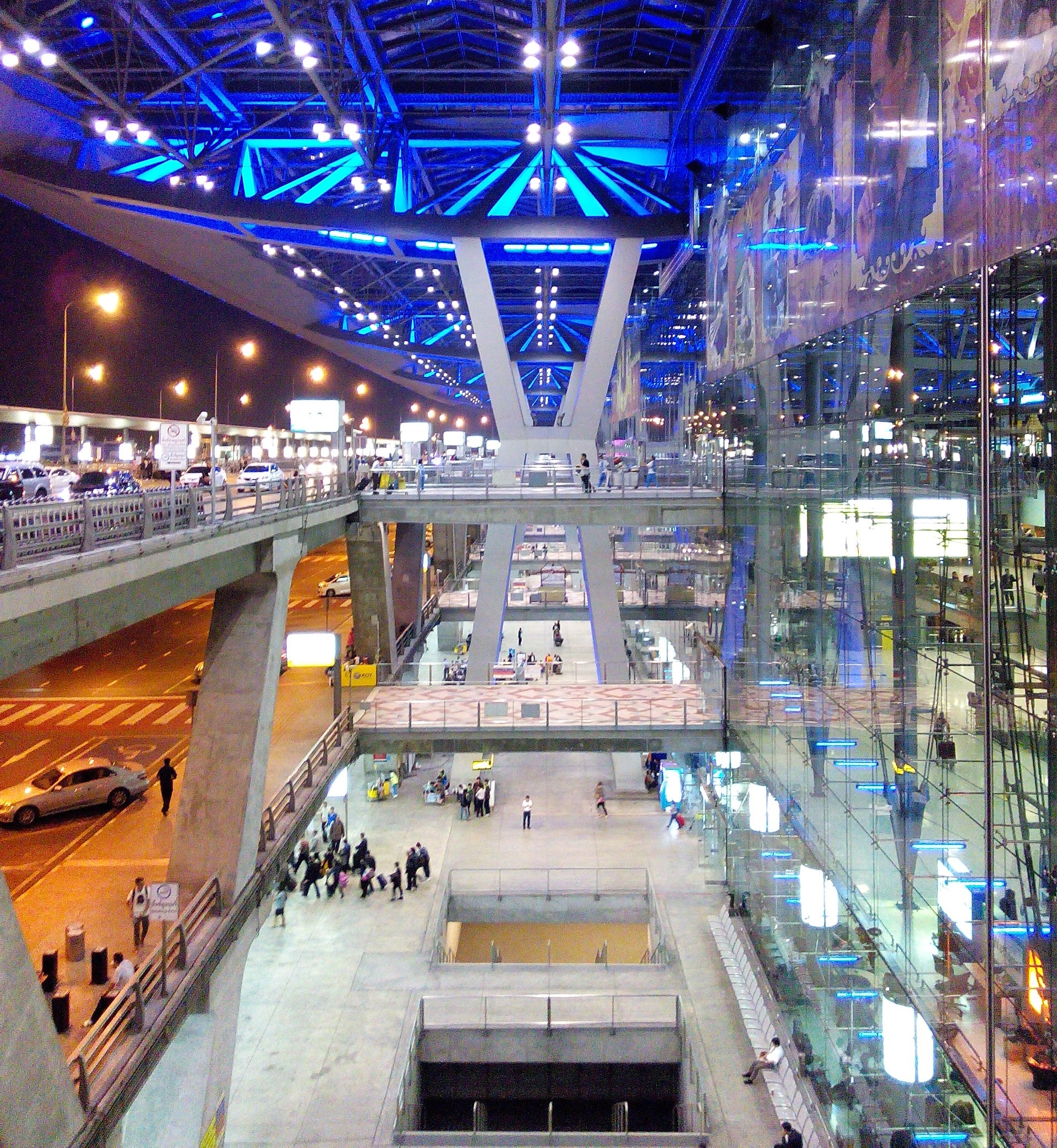 Suvarnabhumi Airport Entrance. Bangkok